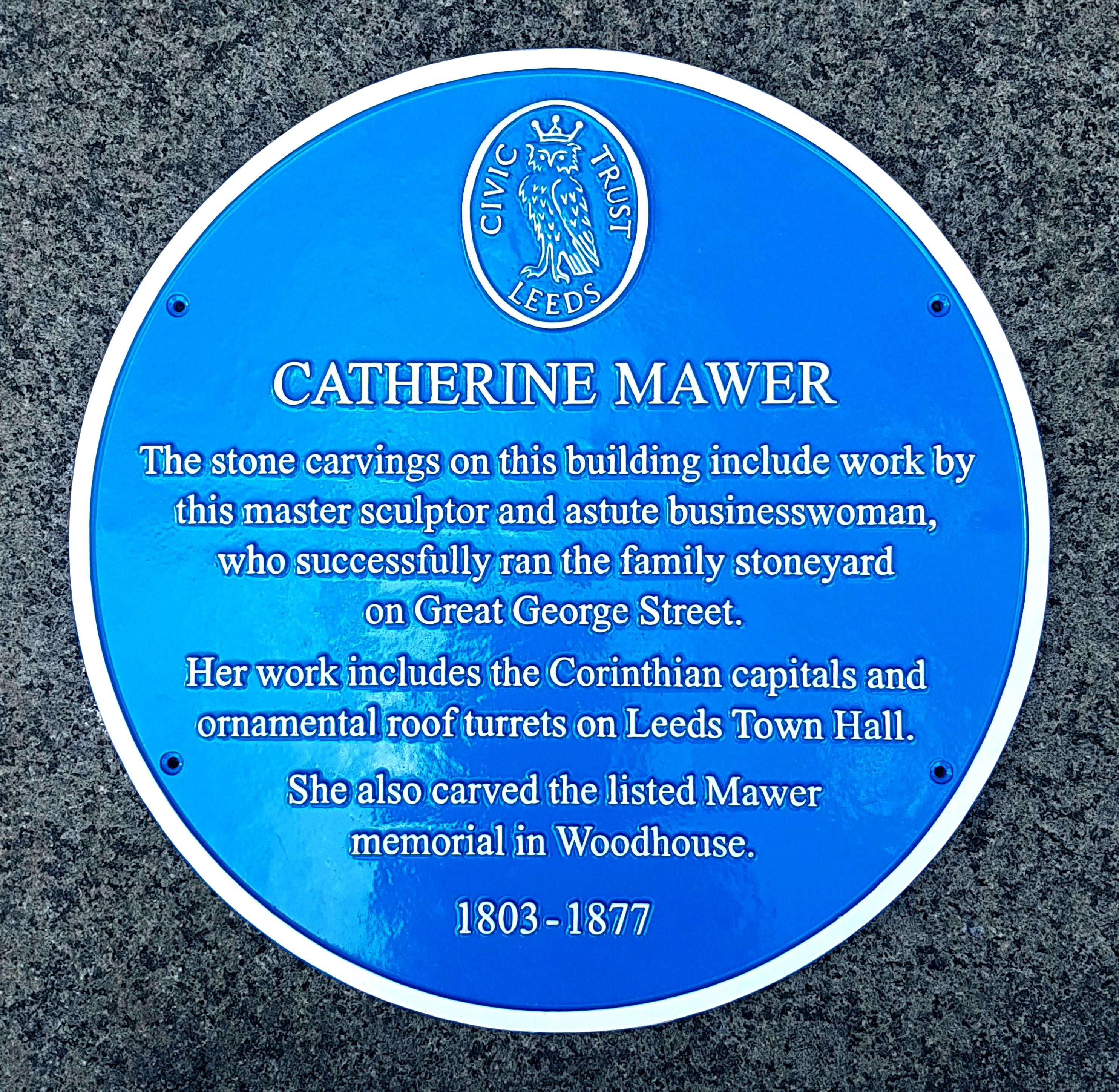 Blue plaque dedicated to Leeds sculptor Catherine Mawer (1803-1877). Two plaques dedicated to the Mawer Group were unveiled by Leeds Civic Trust in Leeds, West Yorkshire, England, on 11 July 2019.